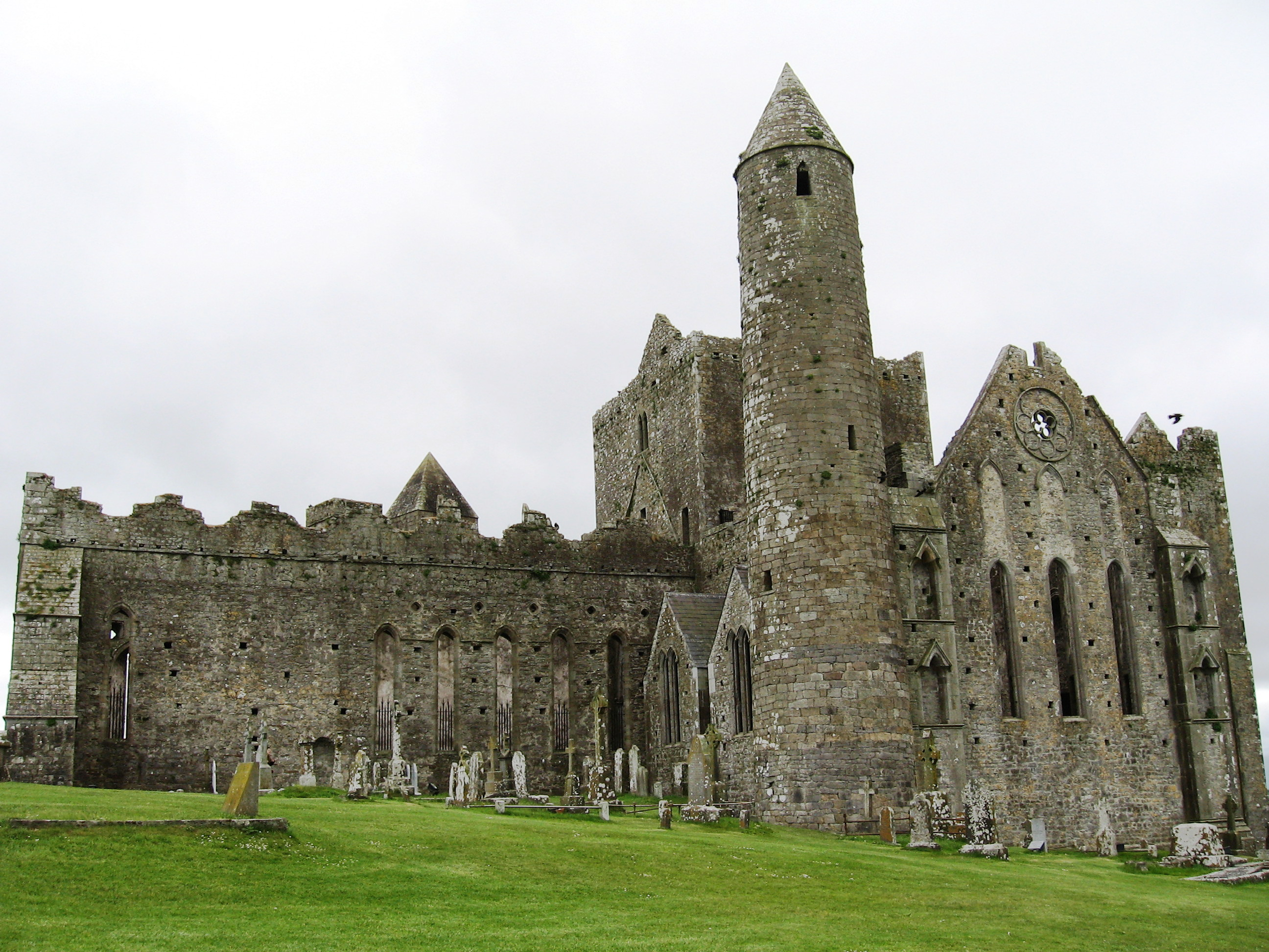 Rock of Cashel: view on Round Tower and cathedral, from the grave yard